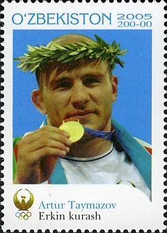 Stamps of Uzbekistan, 2006